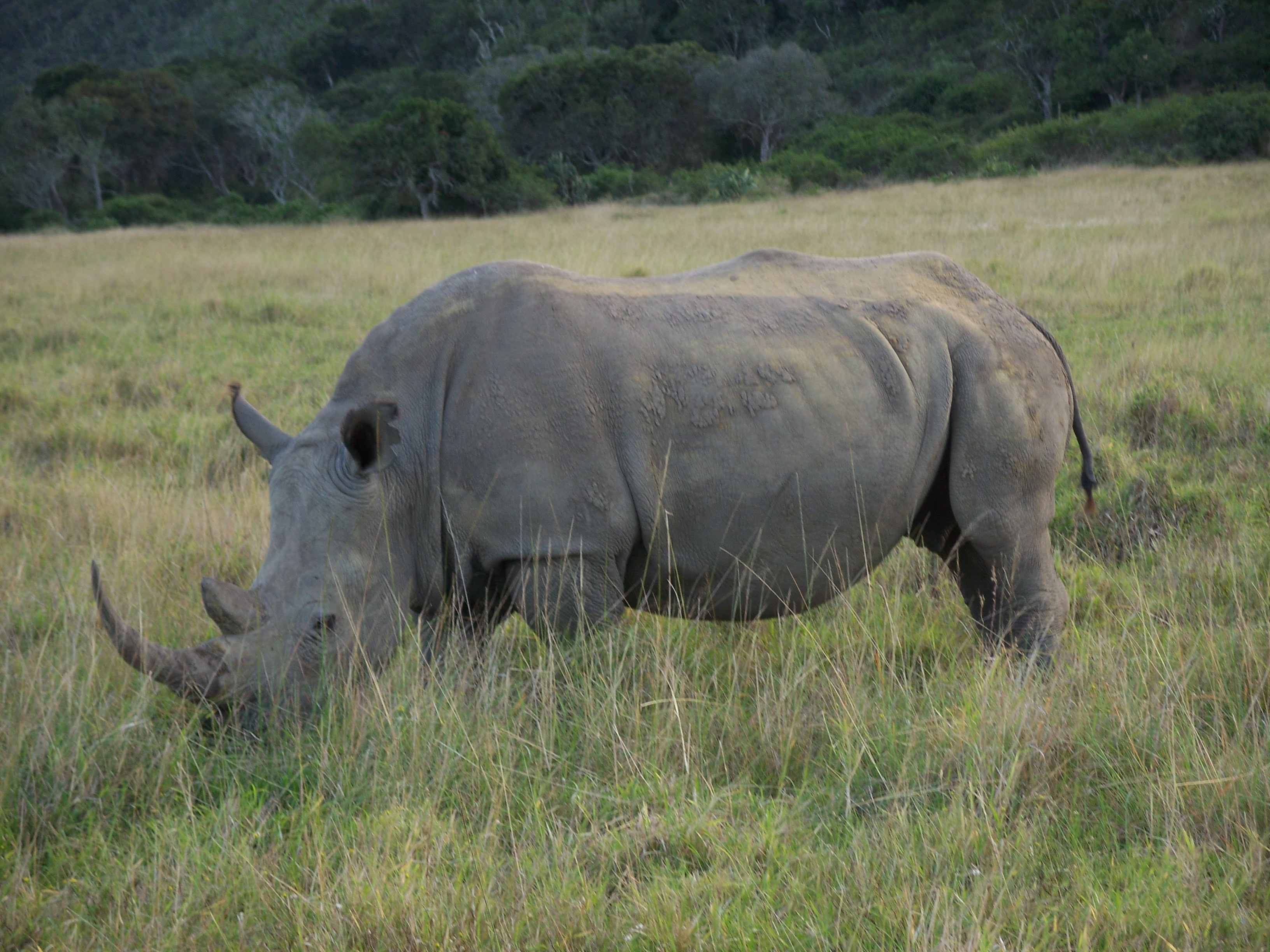 A White Rhinoceros of the southern race, or Southern grass rhino, in Kariega Game Reserve, Eastern Cape, South Africa